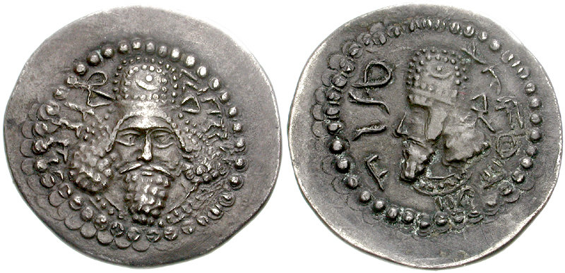 Coin of Ardashir I (left) and Papak (right).